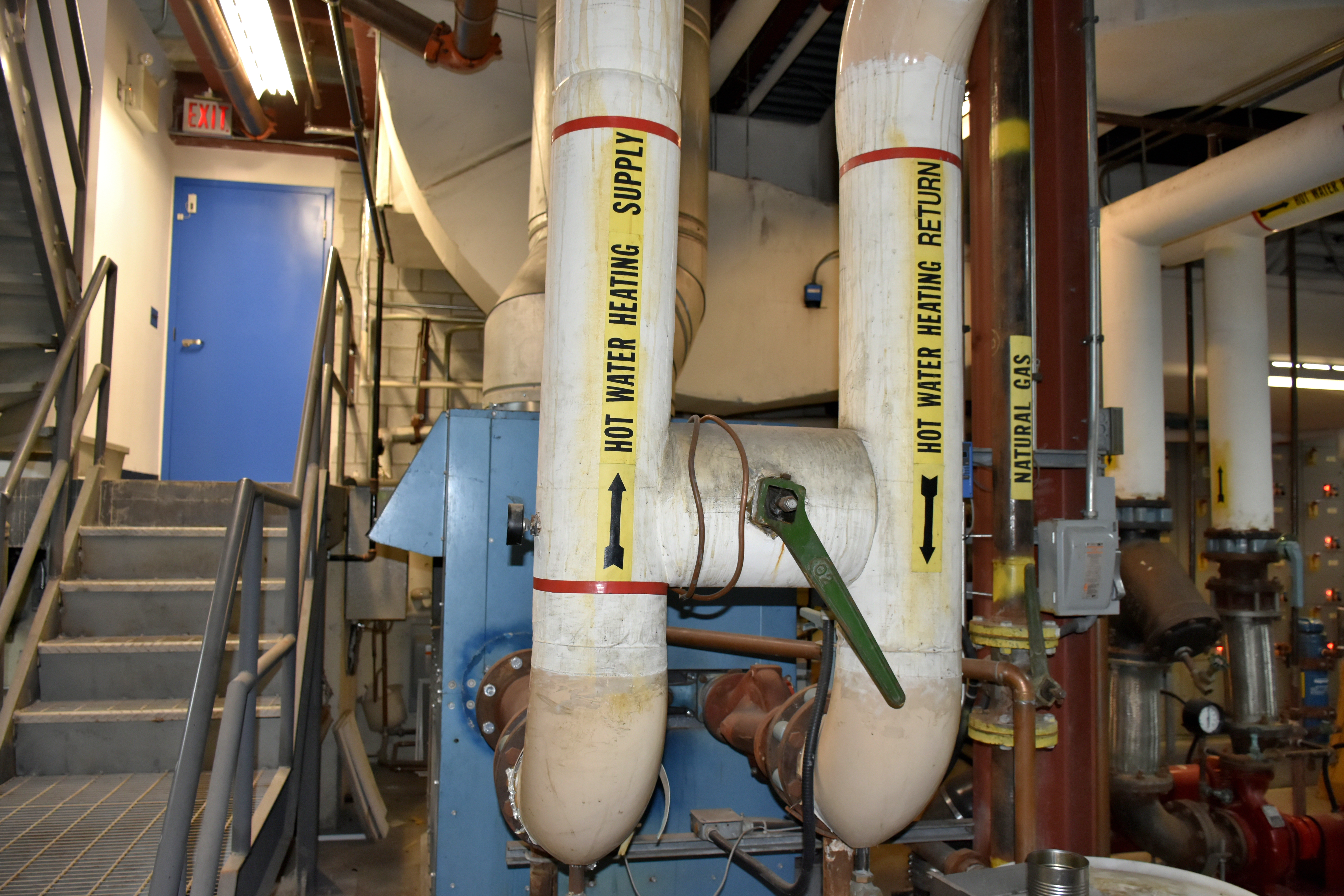 The hot water heating supply and return piping with polymer based insulation used for temperature control in part of a high-rise residential apartment building.